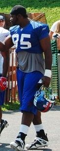 Five New York Giants football players at the first day 2007 training camp at the University at Albany, SUNY. L-R: #89 Kevin Boss, #69 Rich Seubert, #76 Chris Snee, a player whose face is obscured, and #95 Adrian Awasom. (Schedule)